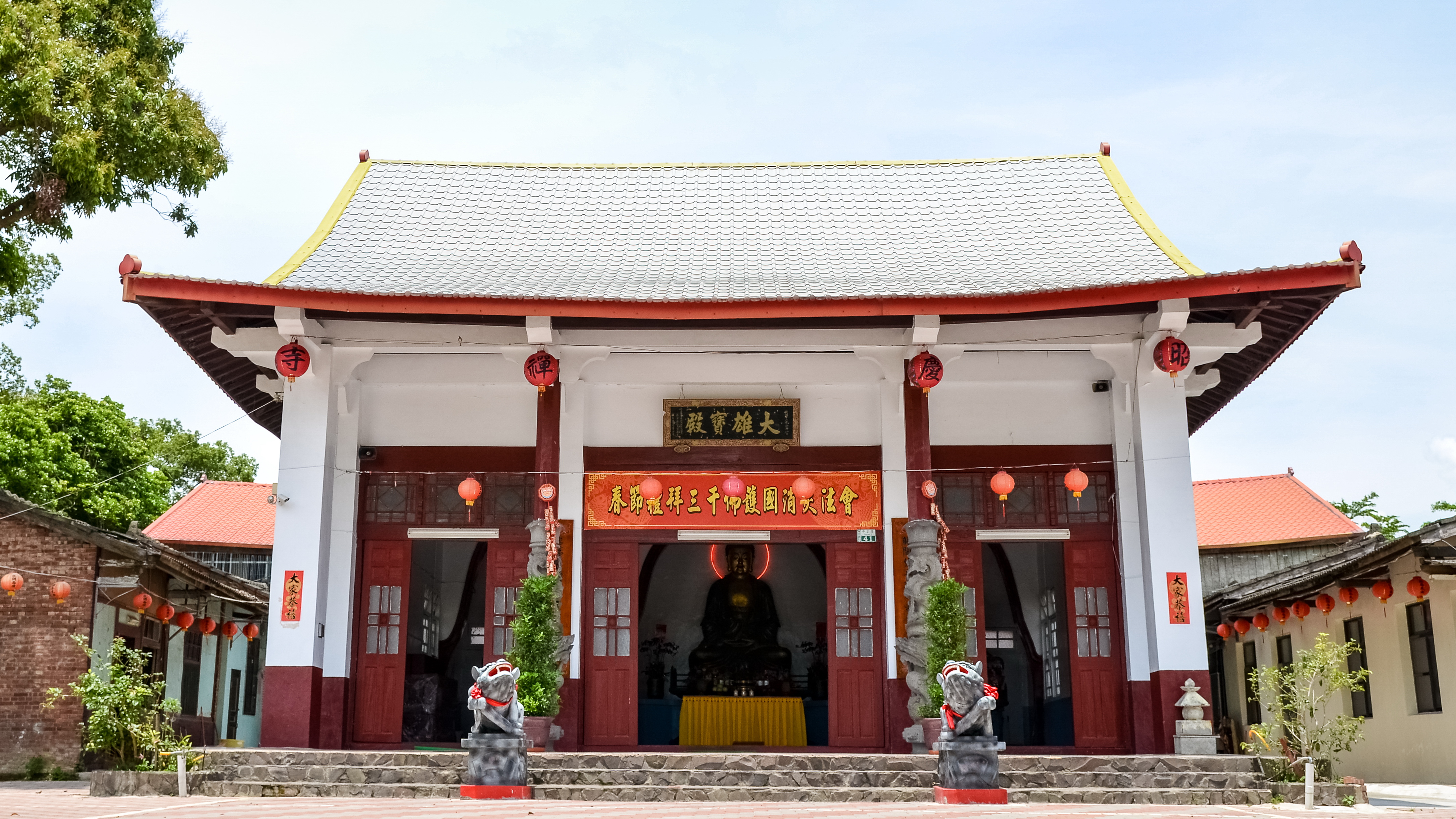 Zhaoqing Buddhist Temple, Dalin, Chiayi, Taiwan.